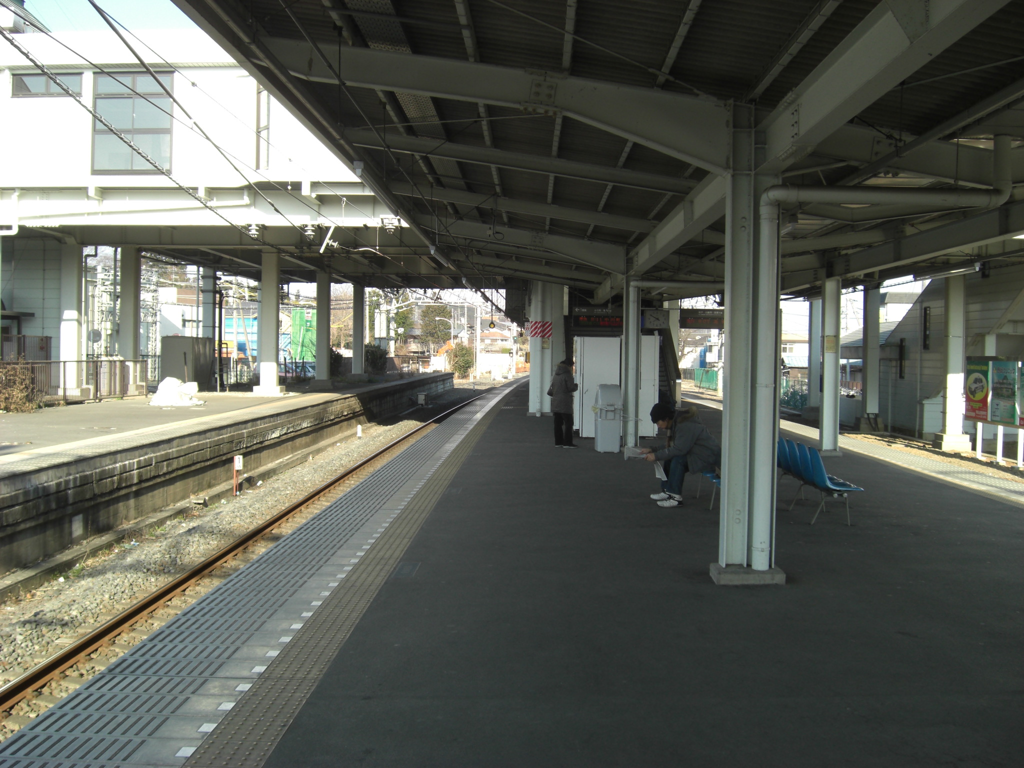 View of the platforms of Musashi-Ranzan Station, looking west